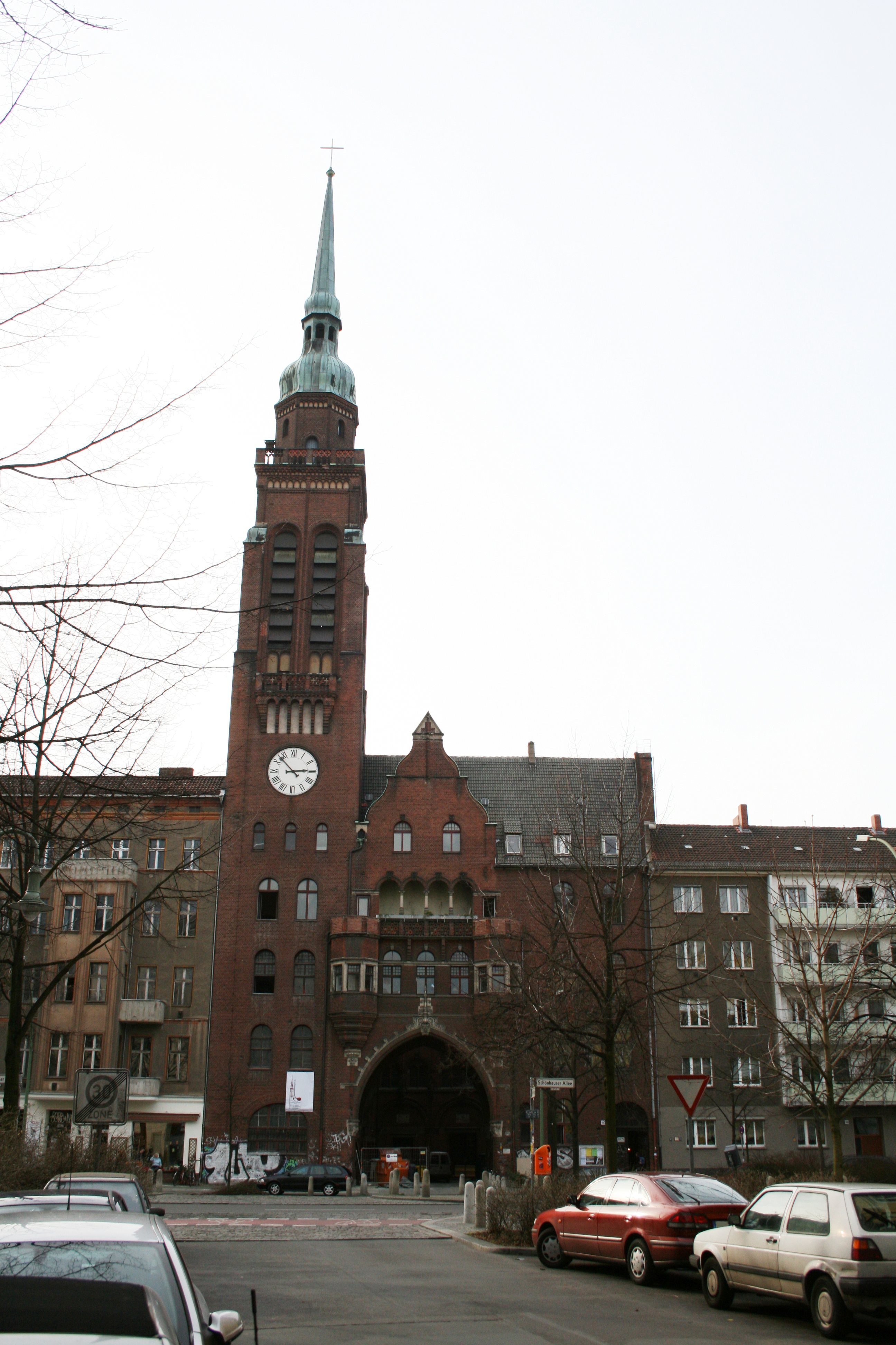 Front of the Segenskirche in Berlin, Germany